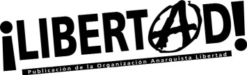 Libertad! Cover, anarchist magazine. from Argentina